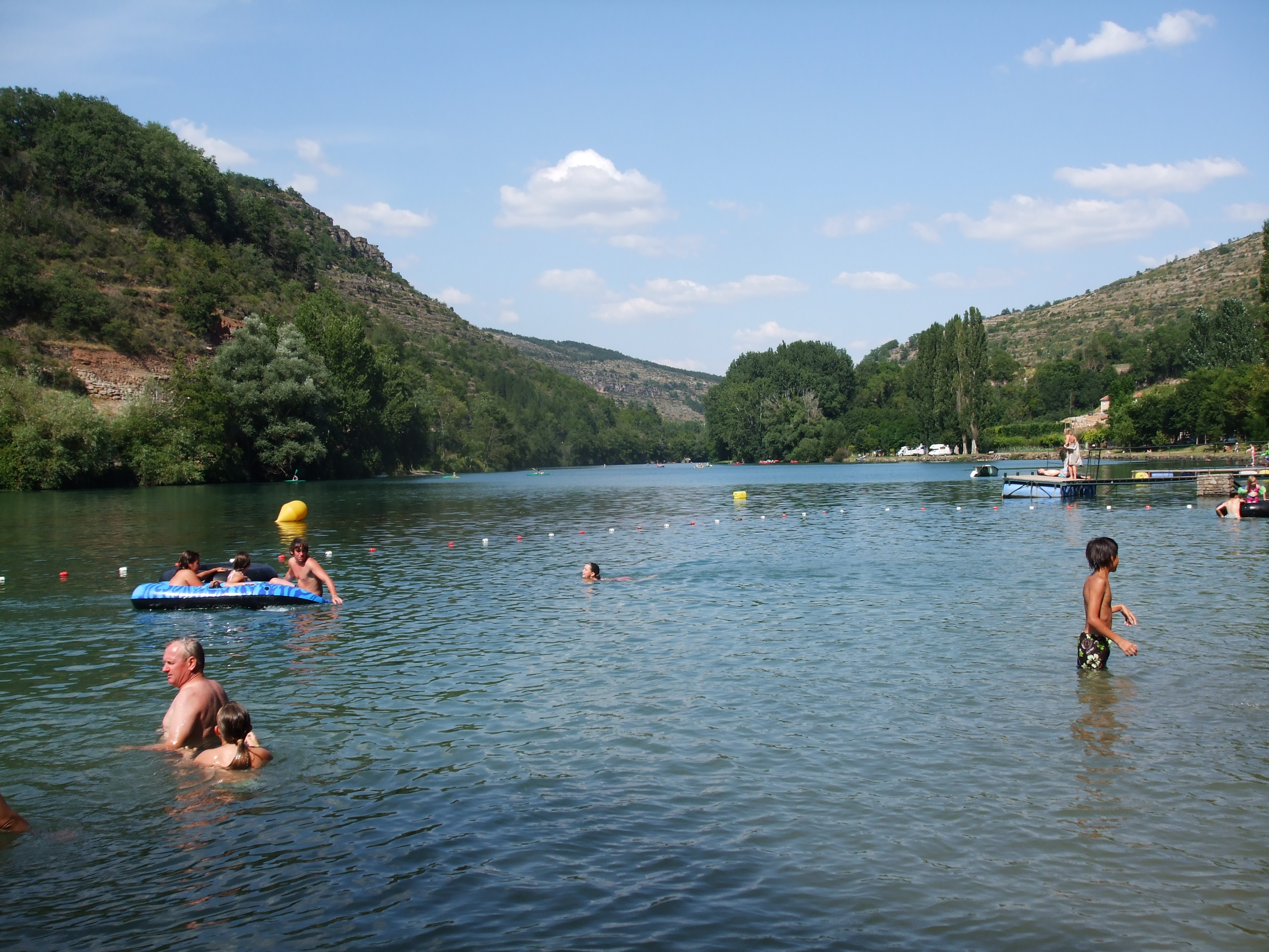 Leisure at the authorised beach at Saint-Rome-de-Tarn, Aveyron, France.